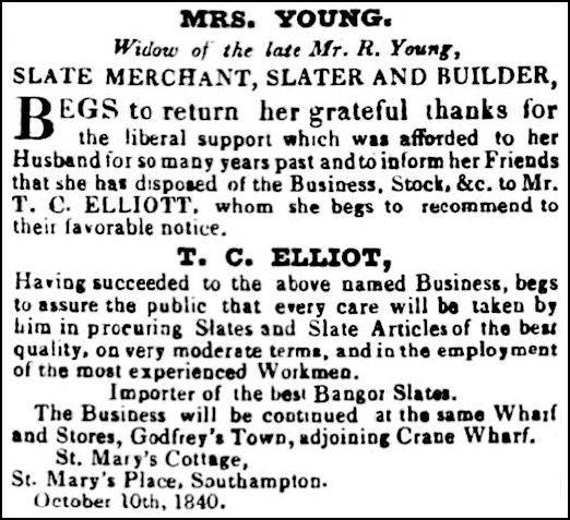 An advertisement inserted in the Hampshire Advertiser on 17 October 1840 by Mrs Charlotte Young of Southampton announcing that her husband's business is to be transferred to Thomas Christopher Elliott